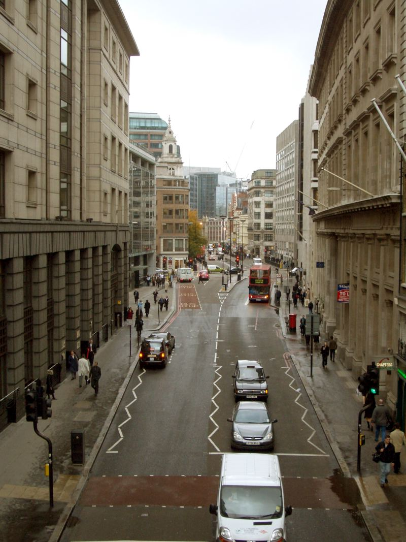 Bishopsgate